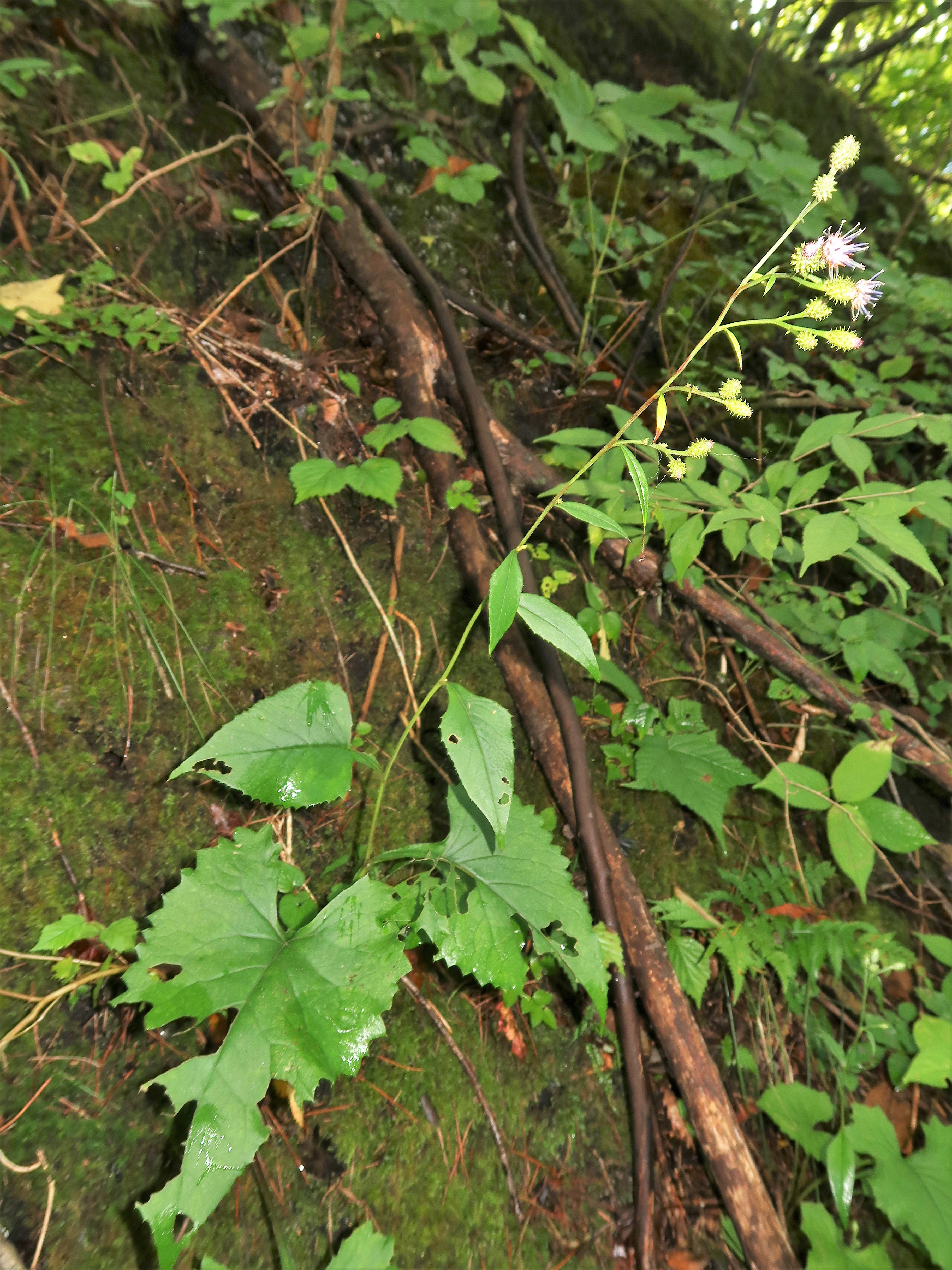 Saussurea yuki-uenoana, Marumori town, Igu district, Miyagi pref., Japan